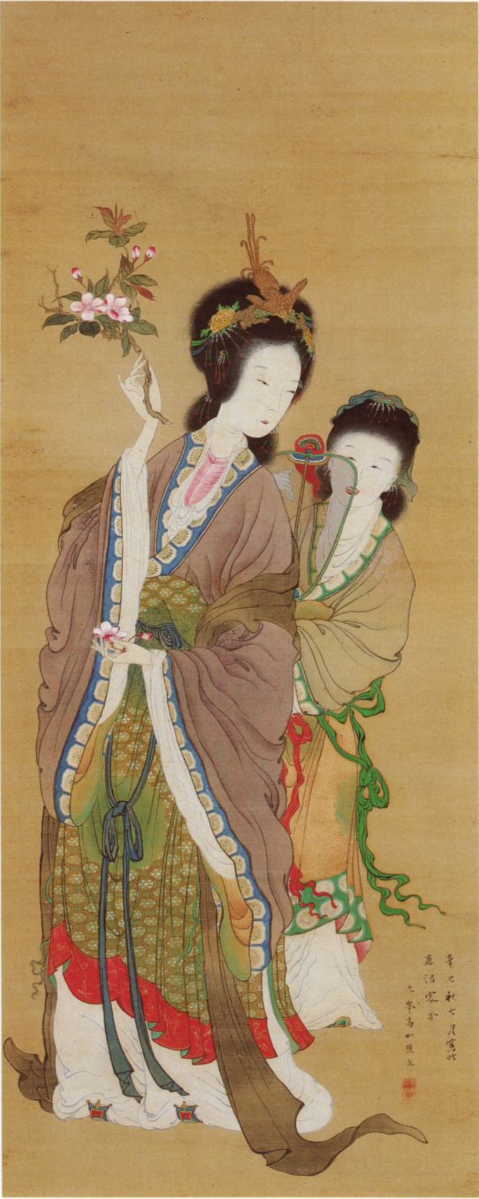 Yang Gui fei;hanging scroll,color on silk 楊貴妃図 絹本着色